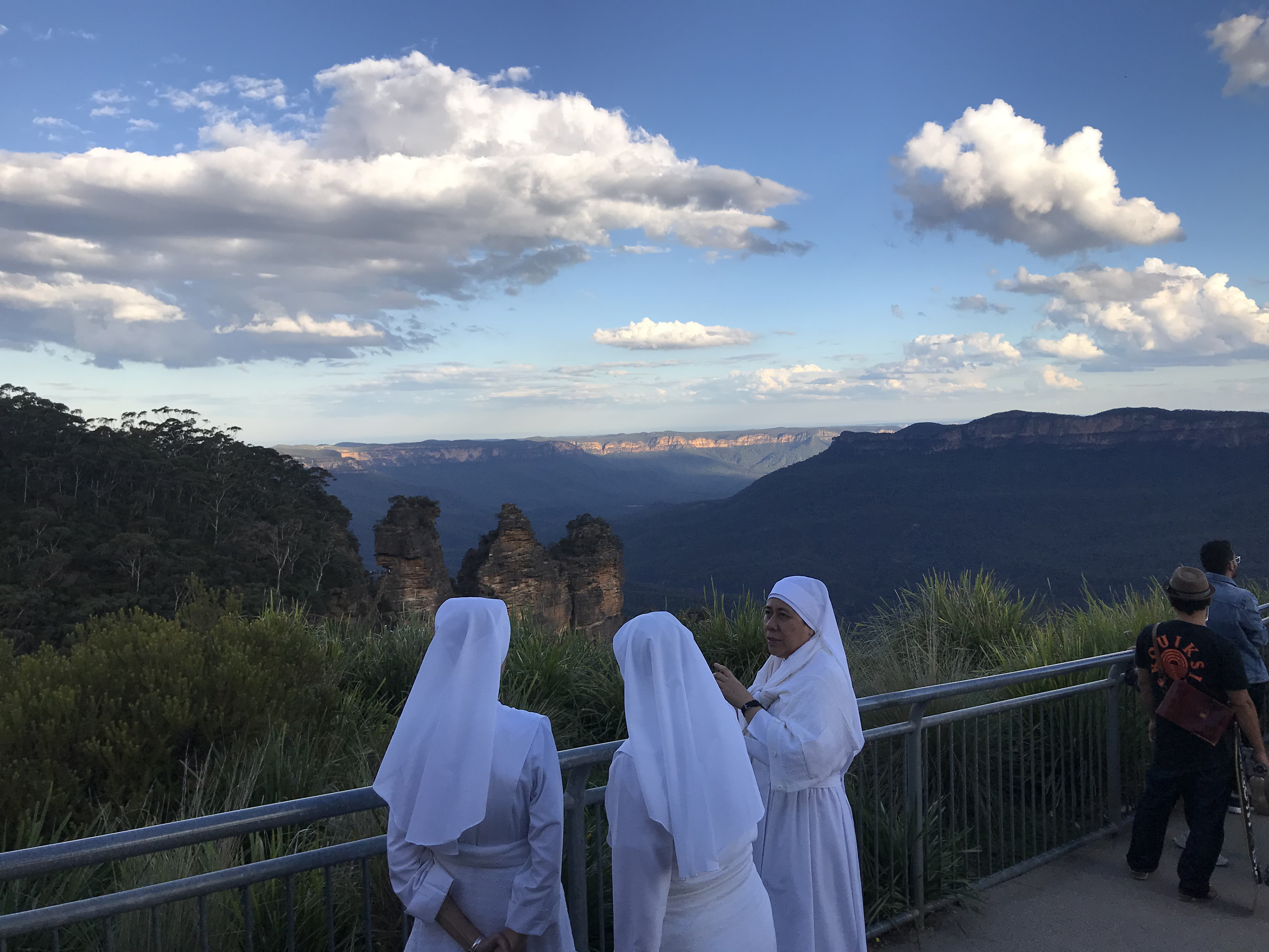 Three sisters in front of three sisters NSW